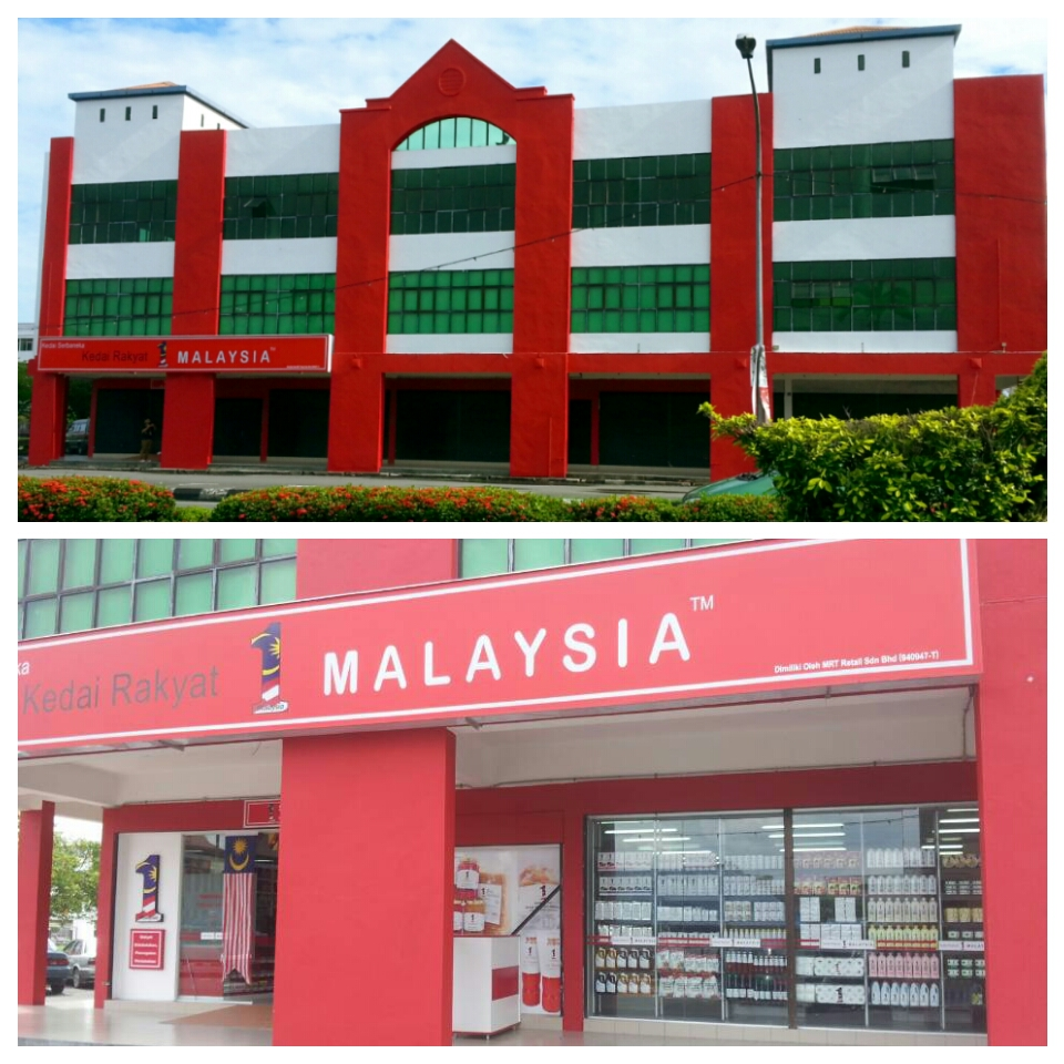 Kedai Rakyat 1Malaysia Sarikei Outlet